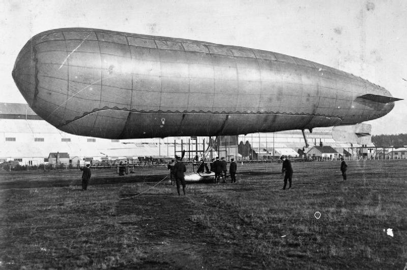 Aviation in Britain Before the First World War The naval airship Willow C on the ground in front of the airship sheds.